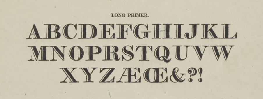 A Long Primer bold inline modern-face, in an undated specimen issued by William Caslon IV, probably printed around 1814. Specimen is now in the collection of Columbia University and scanned by them.